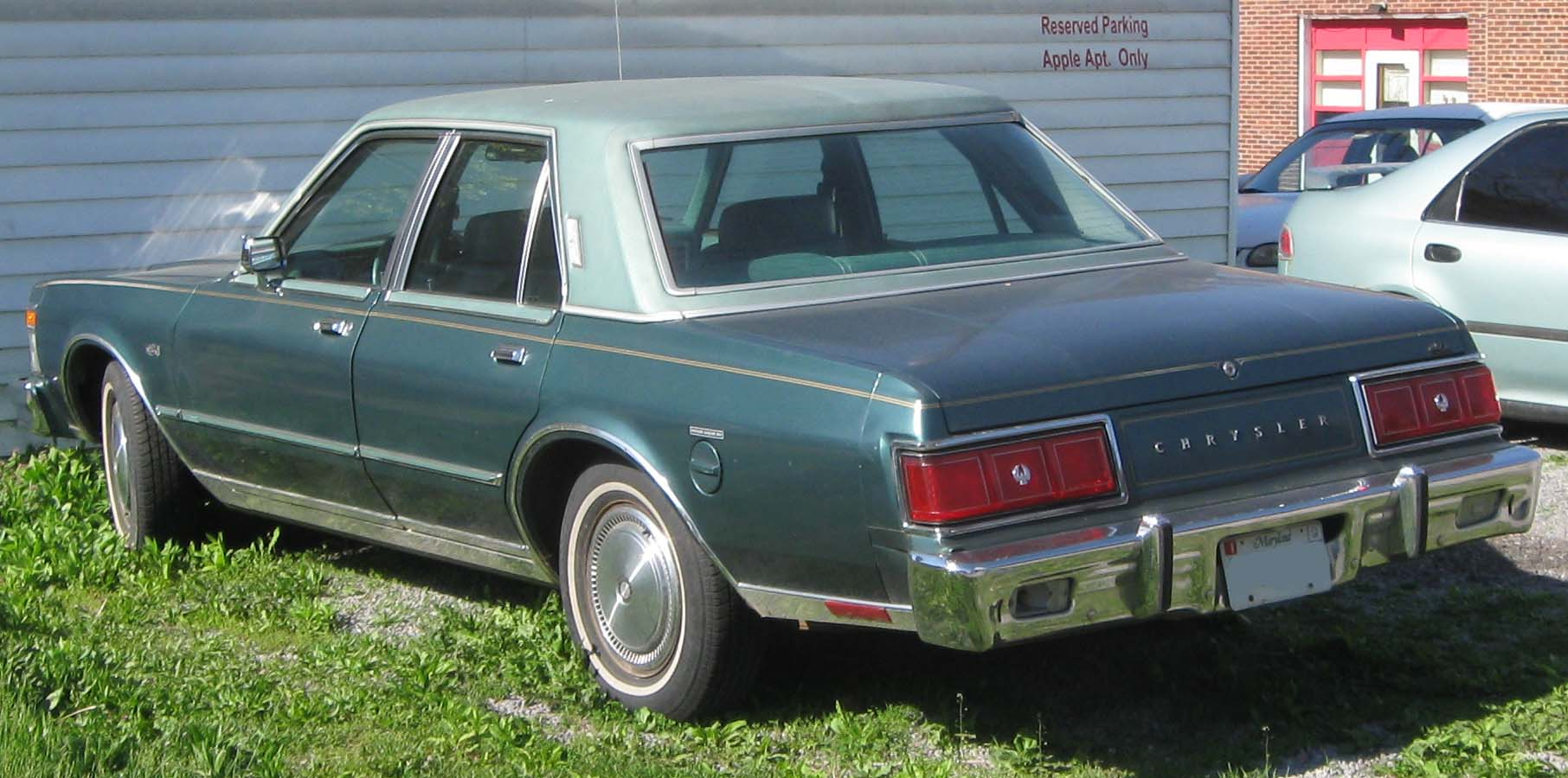 1977-1979 Chrysler LeBaron photographed in Hancock, Maryland, USA.